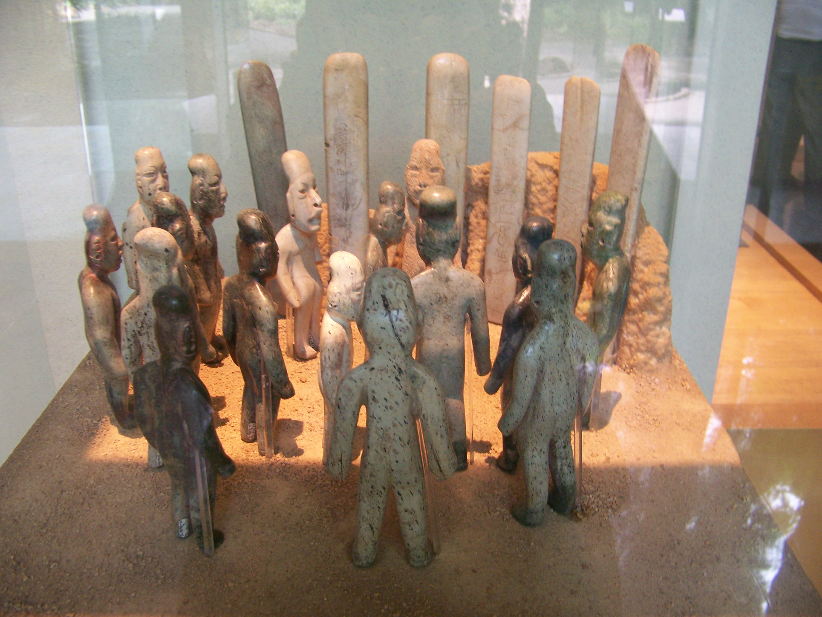 Offering 4 from La Venta, an Olmec site